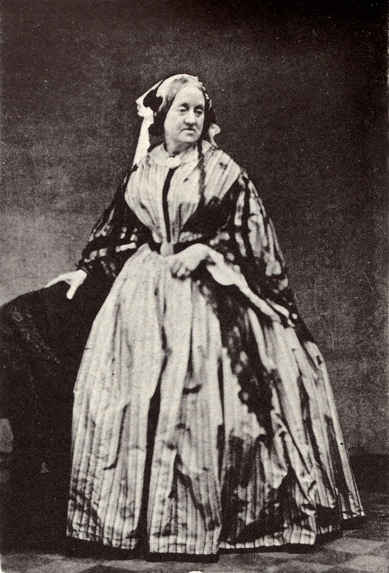 Portrait of Anna Atkins, albumen print, 1861